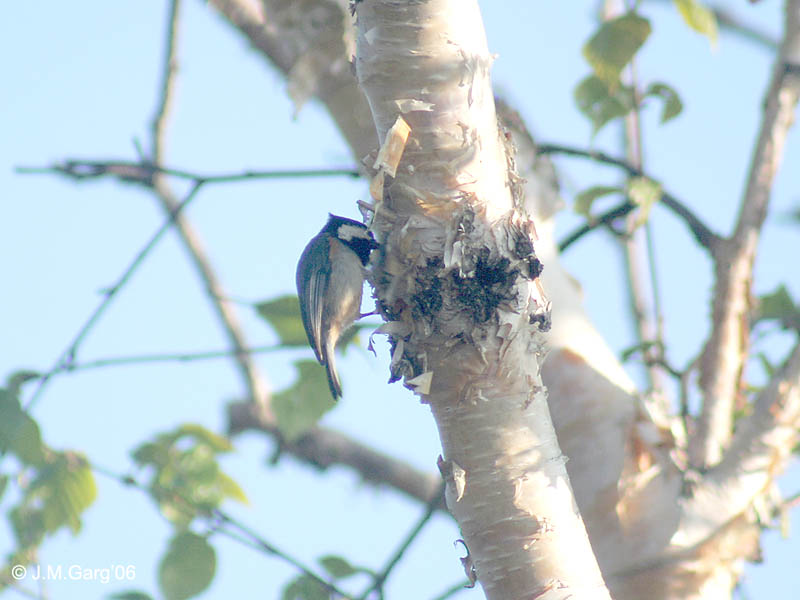 Rufous-vented Tit Parus rubidiventris in Kullu District of Himachal Pradesh, India.